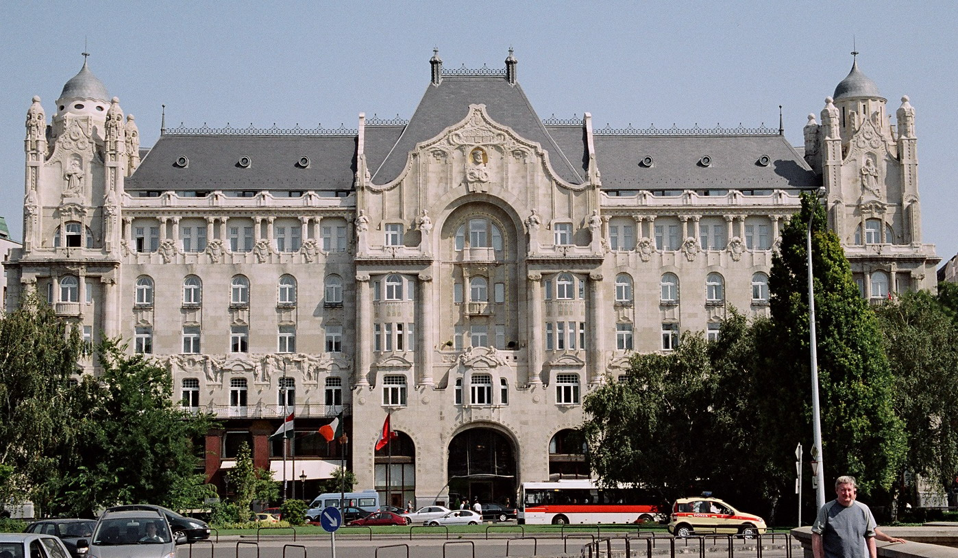 Four Seasons Hotel Gresham Palace, Budapest